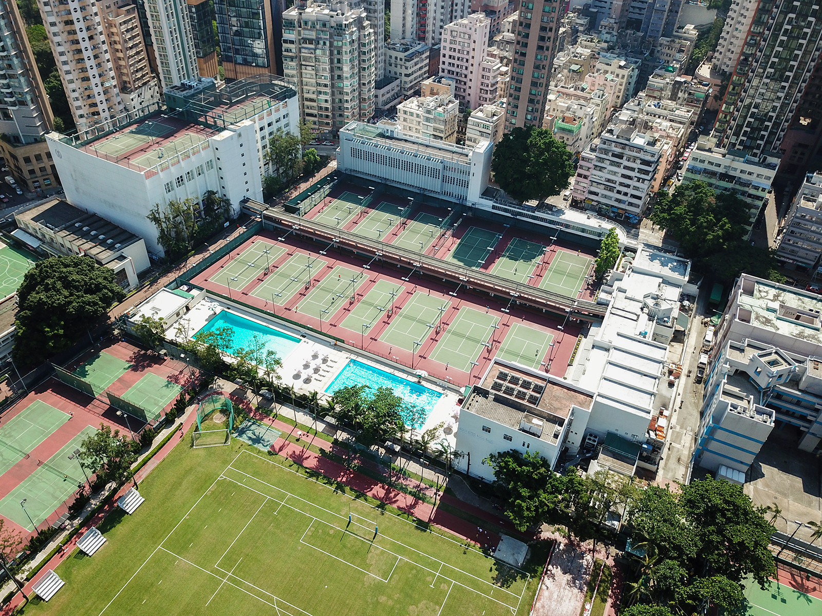 Chinese Recreation Club